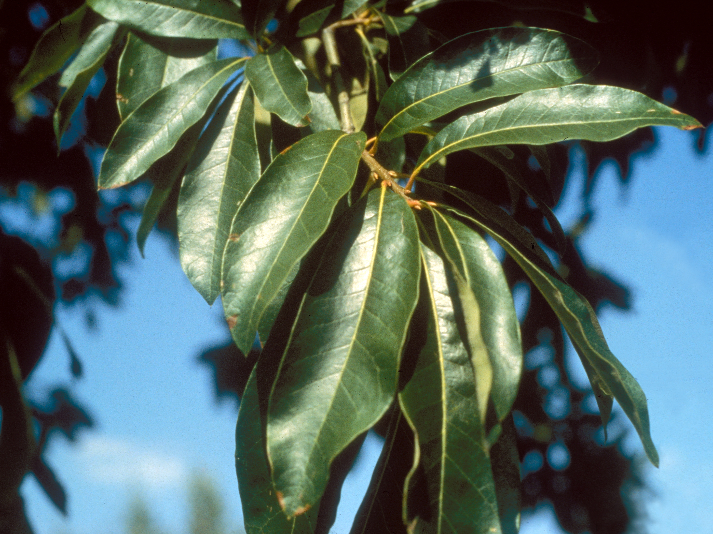 Quercus imbricaria Michx. - shingle oak foliage - United States